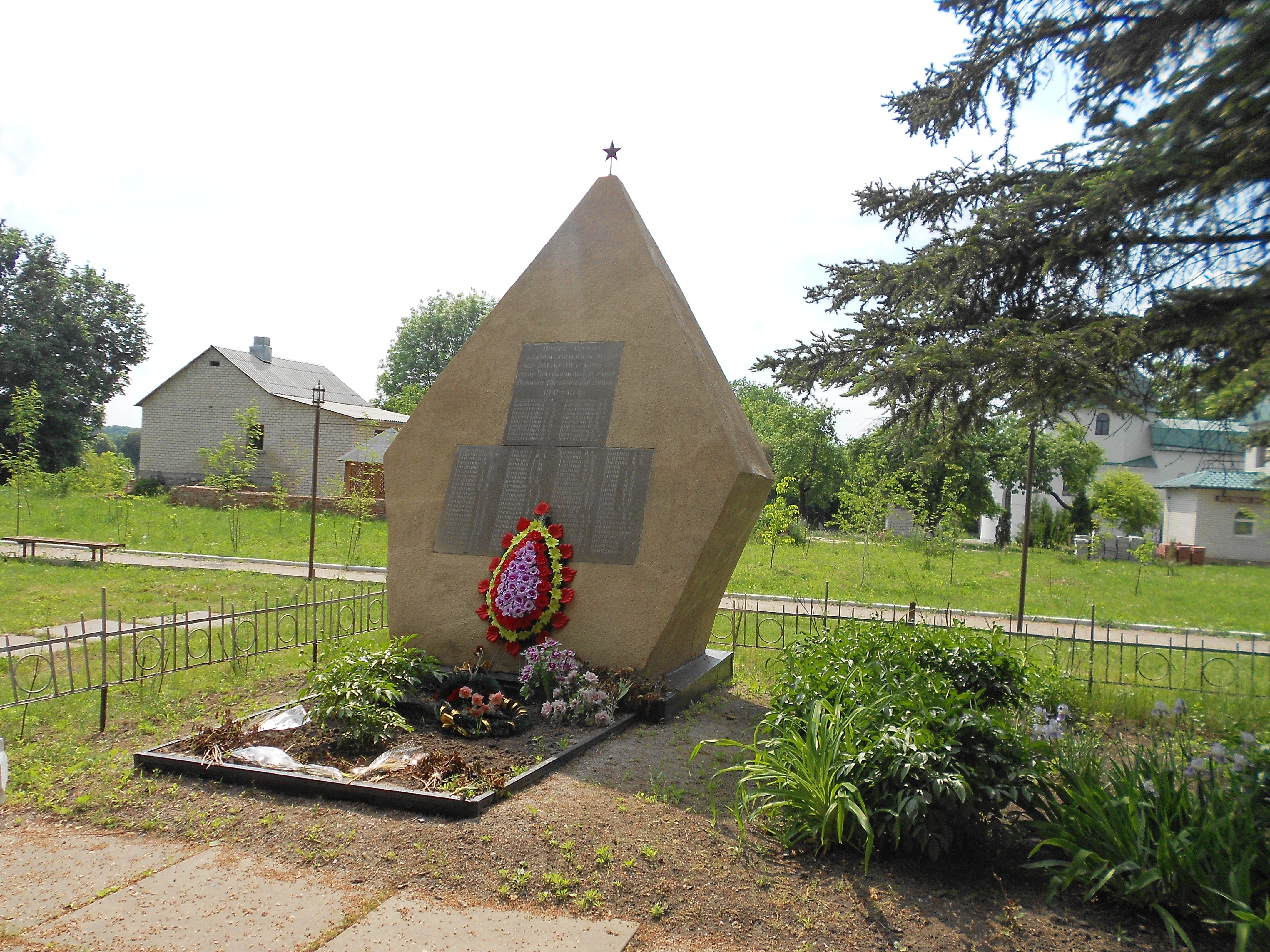 Monument of WWII at Krushynka village.